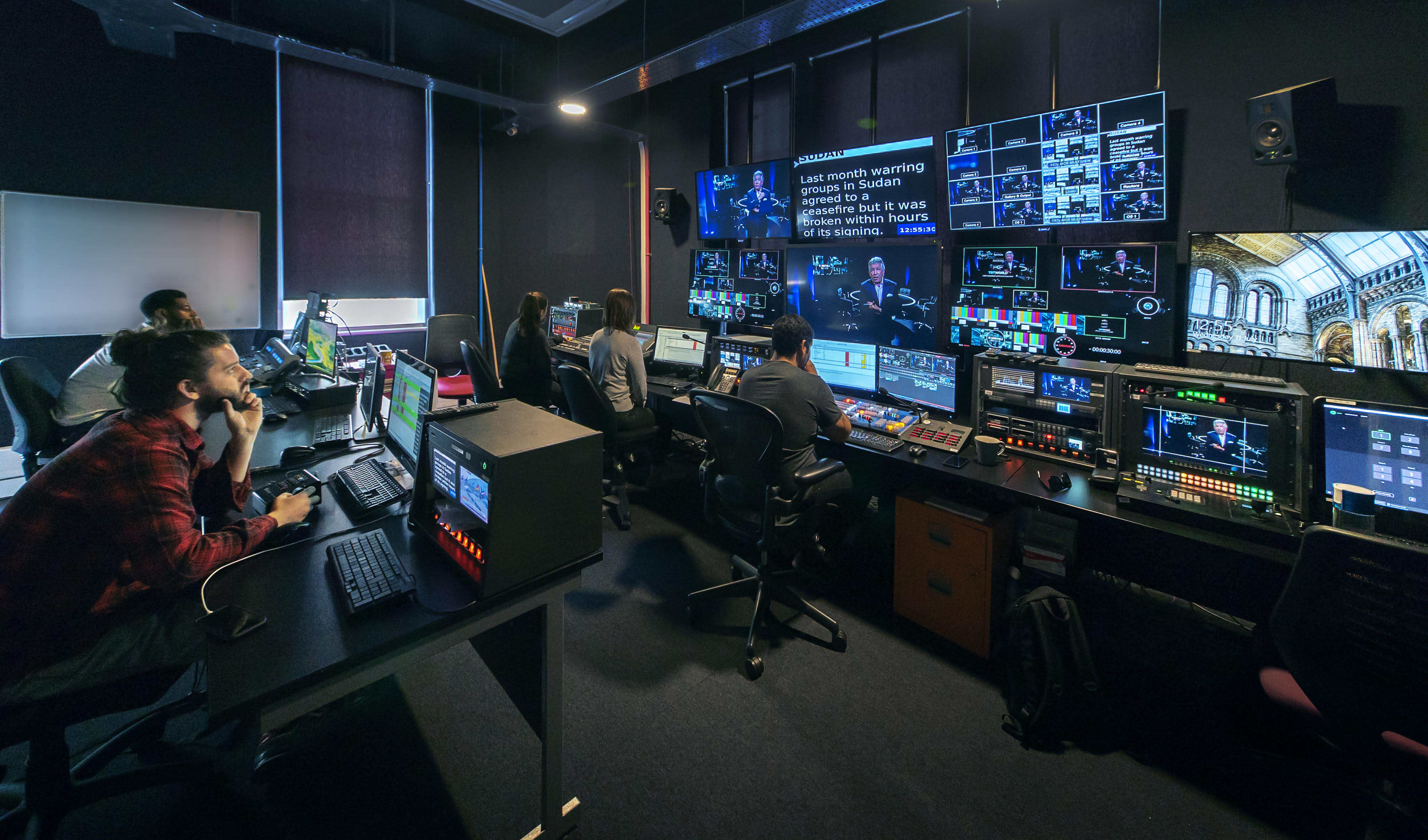 A busy TV Gallery or Control room. Note the various monitors on the wall showing camera output, programme output and monitoring of sources.